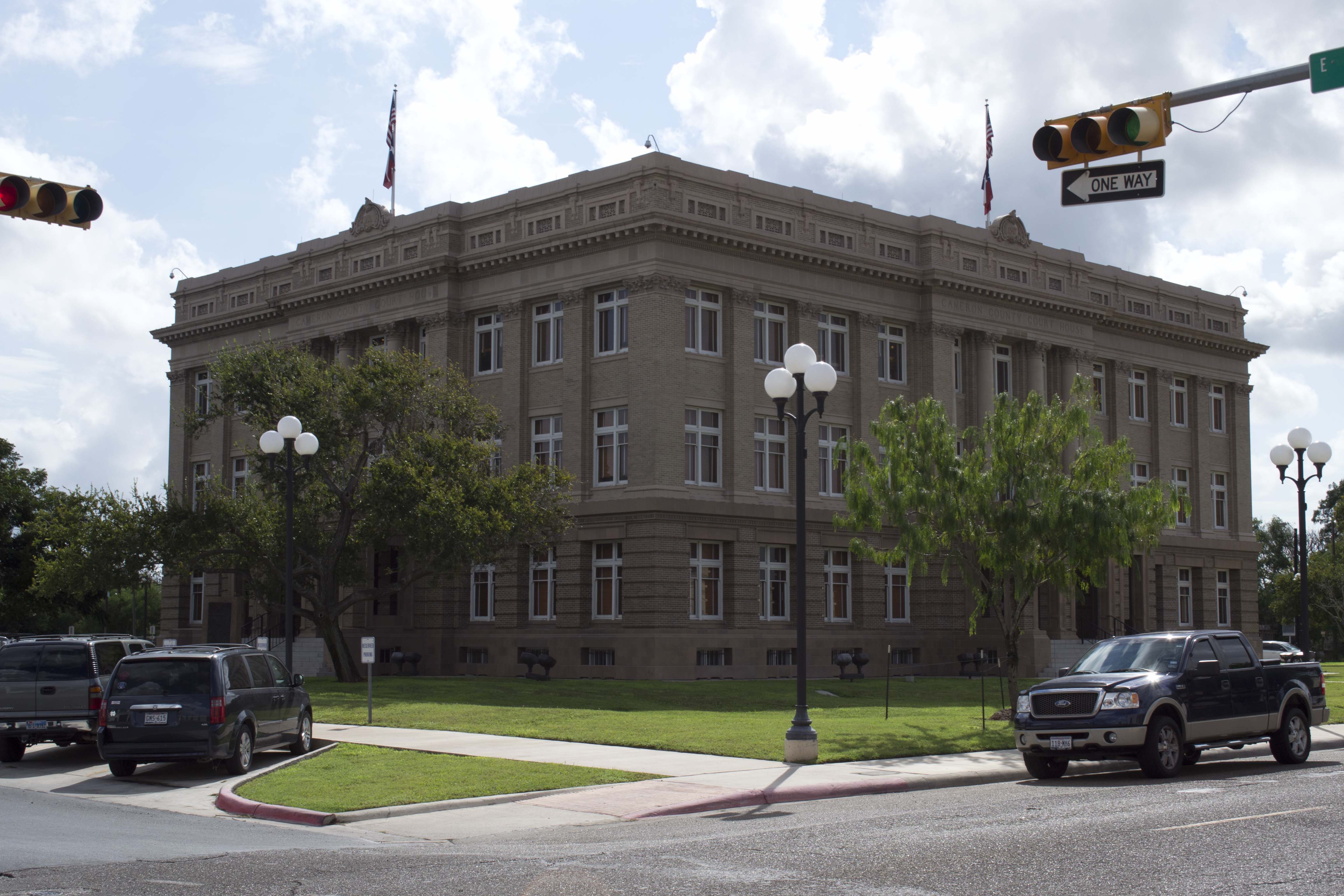 Old Cameron County Courthouse in Brownsville Texas. Listed on the NRHP on September 27, 1980.